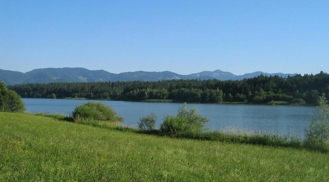 Žovneško jezero (Žovnek Lake) near Celje, Slovenia. Photo:Ziga 22:14, 21 August 2006 (UTC)